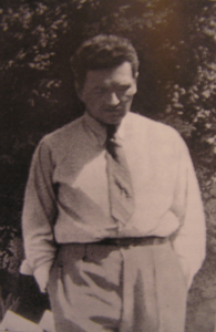 General Stefan Rowecki (1895-1943) - polish commander, officer of Polish Army, leader of the Home Army. Photo made in Pustelnik near Warsaw.